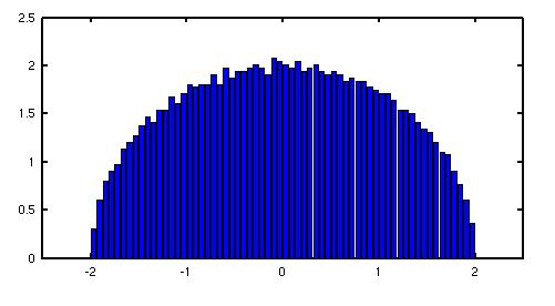 Wigner's semi-circle law (N=3000) created by GNU Octave The code is normalized to : f ( x ) = 1 2 π μ ( x ) = 4 − x 2 {\displaystyle f(x)={\frac {1}{2\pi \mu (x)={\sqrt {4-x^{2 The real graph is very flat semi-circle due to 2π factor without this normalization. Octave code sc(3000,64); function sc(n,d) # Wigner semicircle law # p(x) = 1/(2*pi) x sqrt(4-x^2) # X=randn(n,n); M=(X+transpose(X))/sqrt(2); E=eig(full(M)); #-------------------------------- # number of histgram = d # histgram: delta = 4/d #-------------------------------- [y,x]=hist(E,d); #---------------------- # Normalization # x : 1/sqrt(n) # y : 2*pi/(n*4/d) #---------------------- nx=1/sqrt(n); ny=2*3.1415*d/(4*n); bar(x*nx,y*ny,"facecolor","b"); axis([-2.5,2.5,0,2.5],"equal"); end